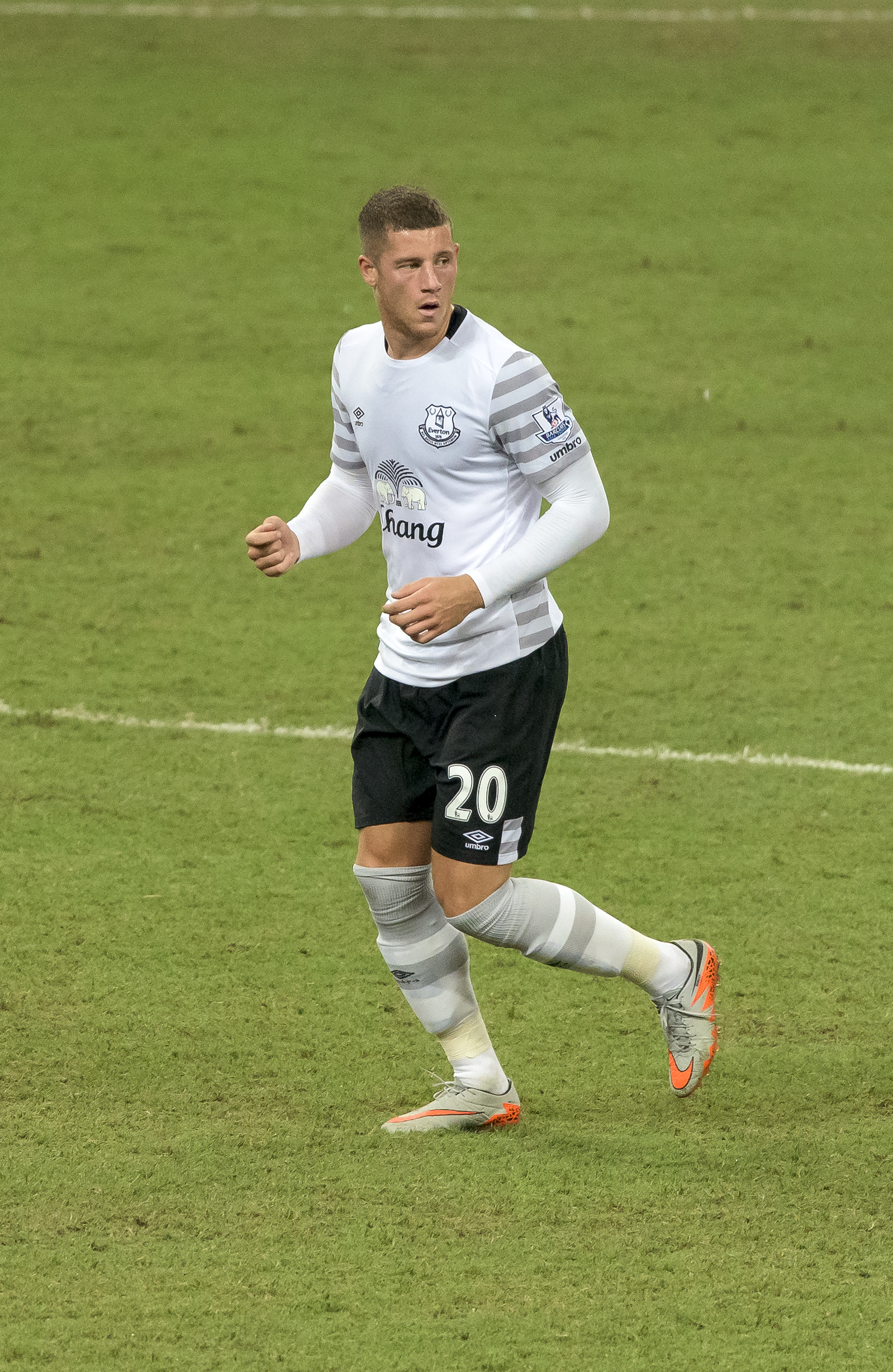 ross barkley 2015 everton arsenal barclays asia singapore